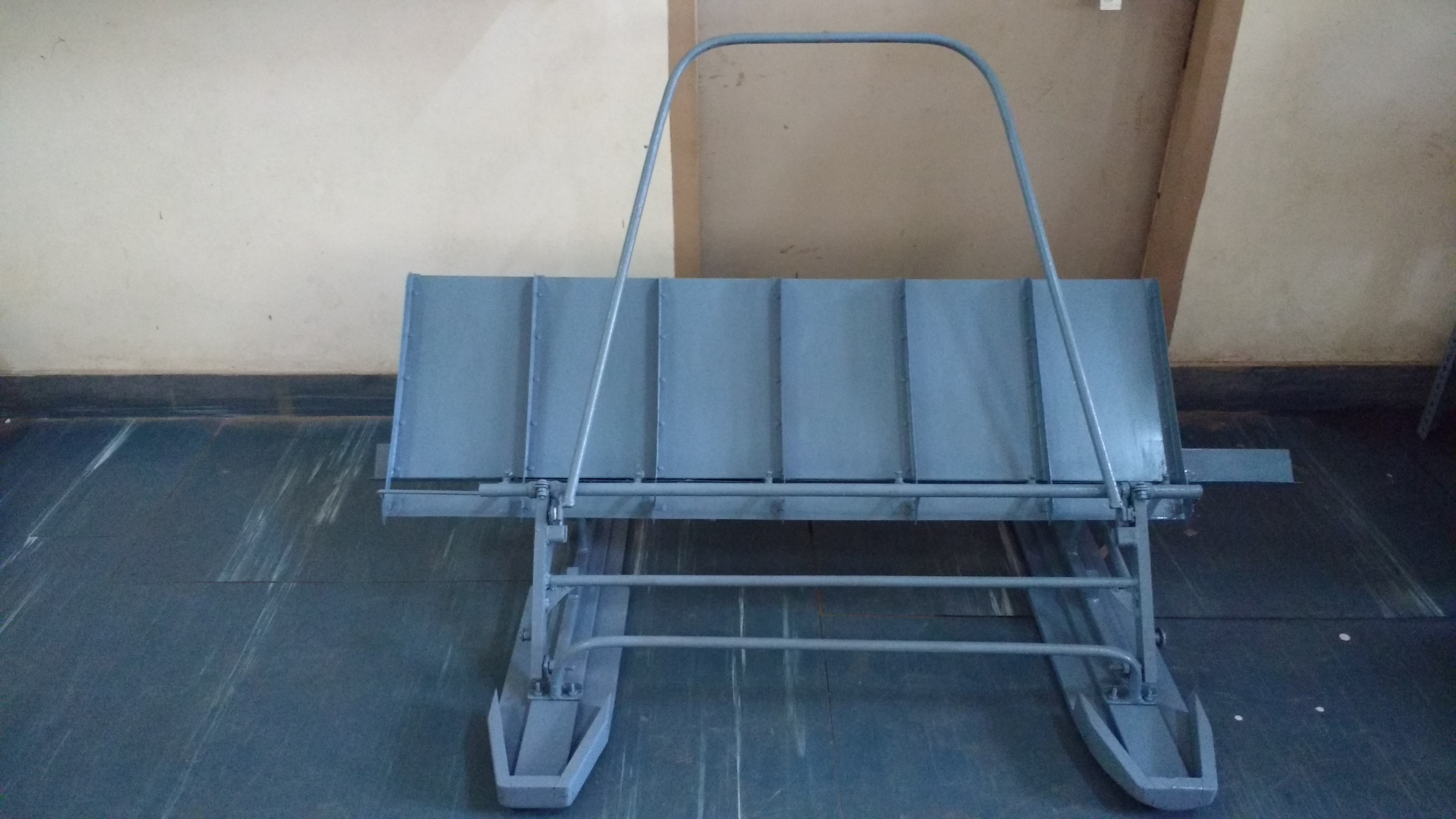 a manual rice transplanter